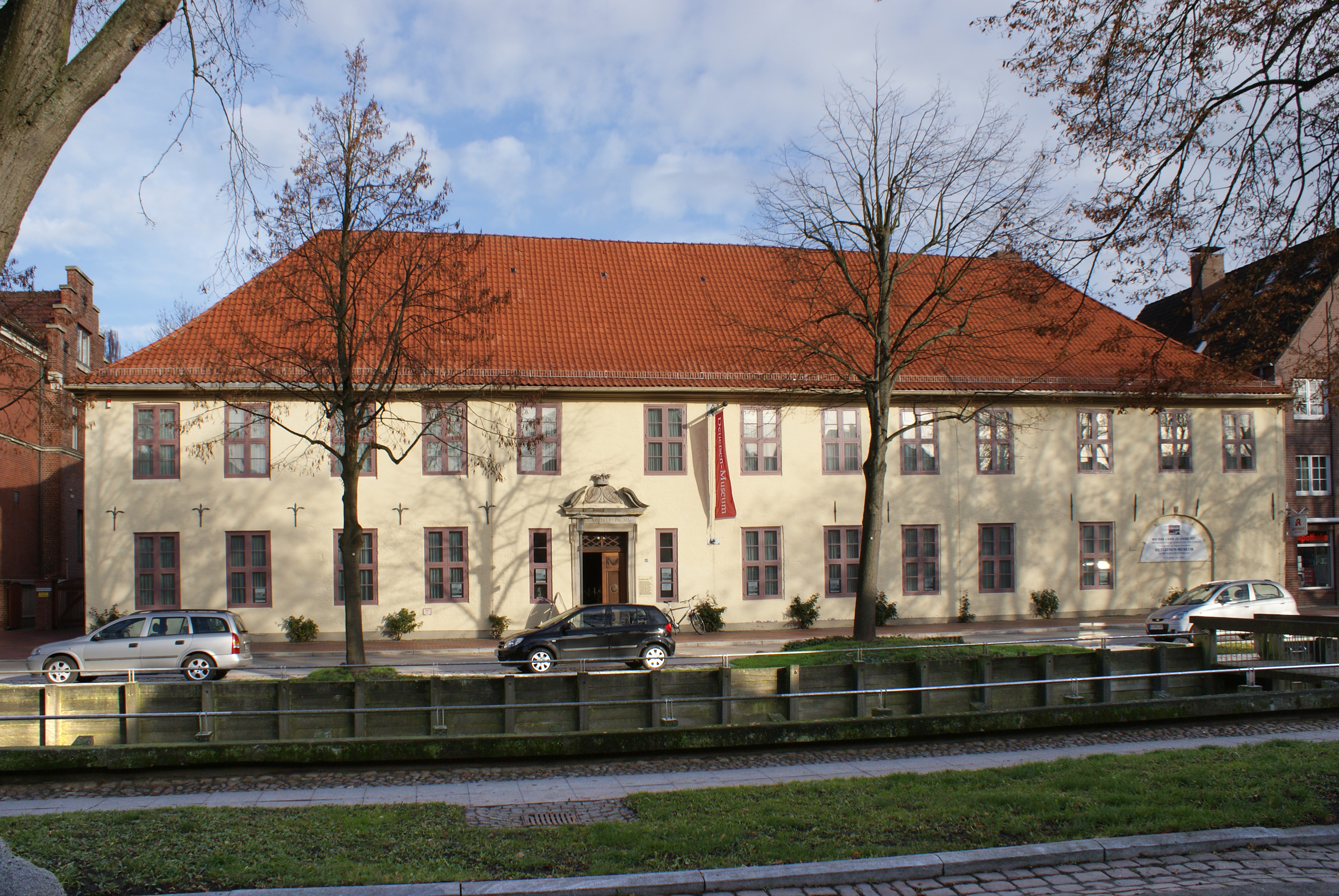 Palais Brockdorff, Glückstadt